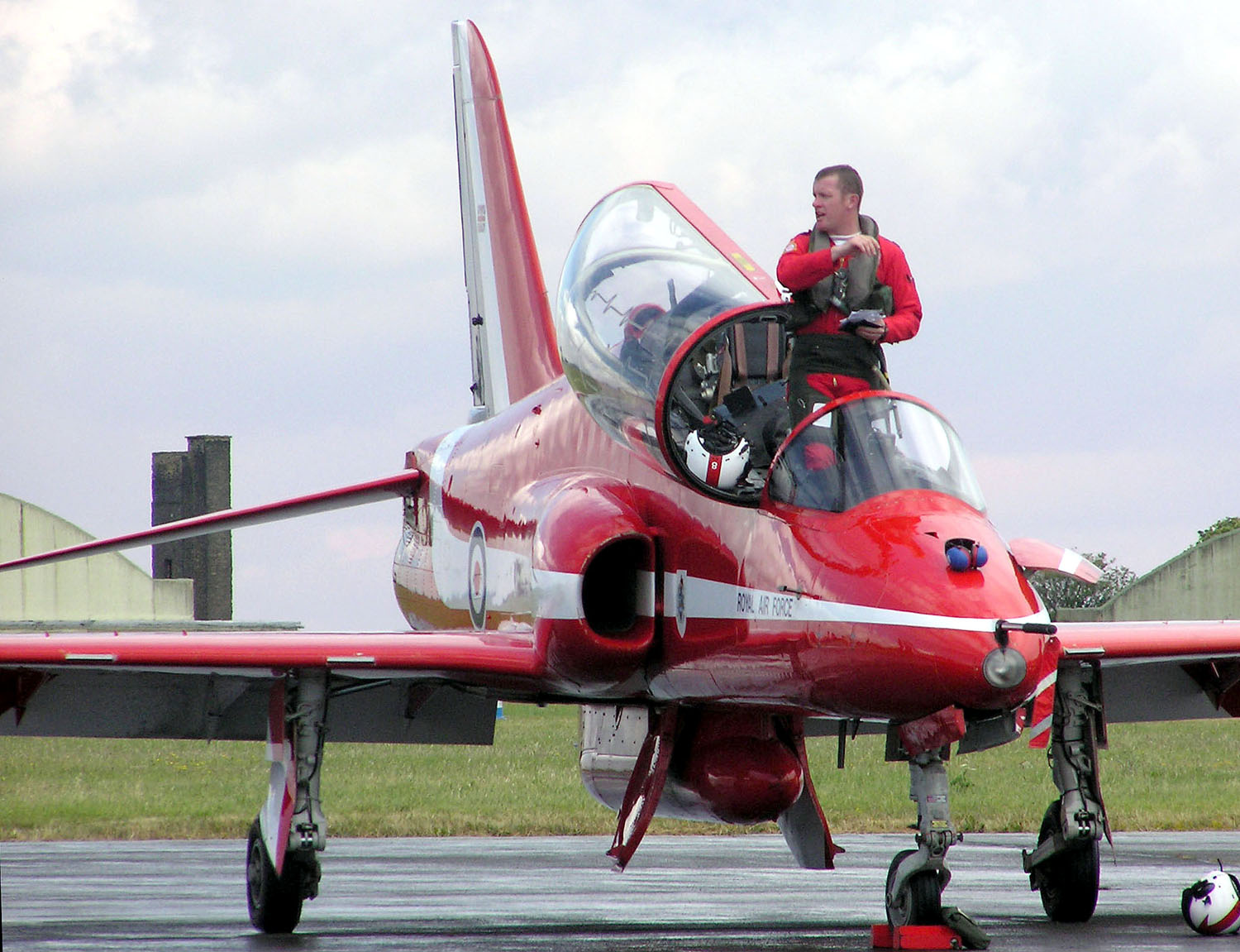 A Red Arrows pilot exits his Hawk aircraft at the end of the display at Kemble Airfield, Kemble, Gloucestershire, England. Taken by Adrian Pingstone in June 2004 and released to the public domain.